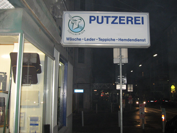 Examples for differing vocabulary in Austrian Standard German A dry cleaner shop is called "Putzerei" in Austria. (The company's name was manually removed from the photo)